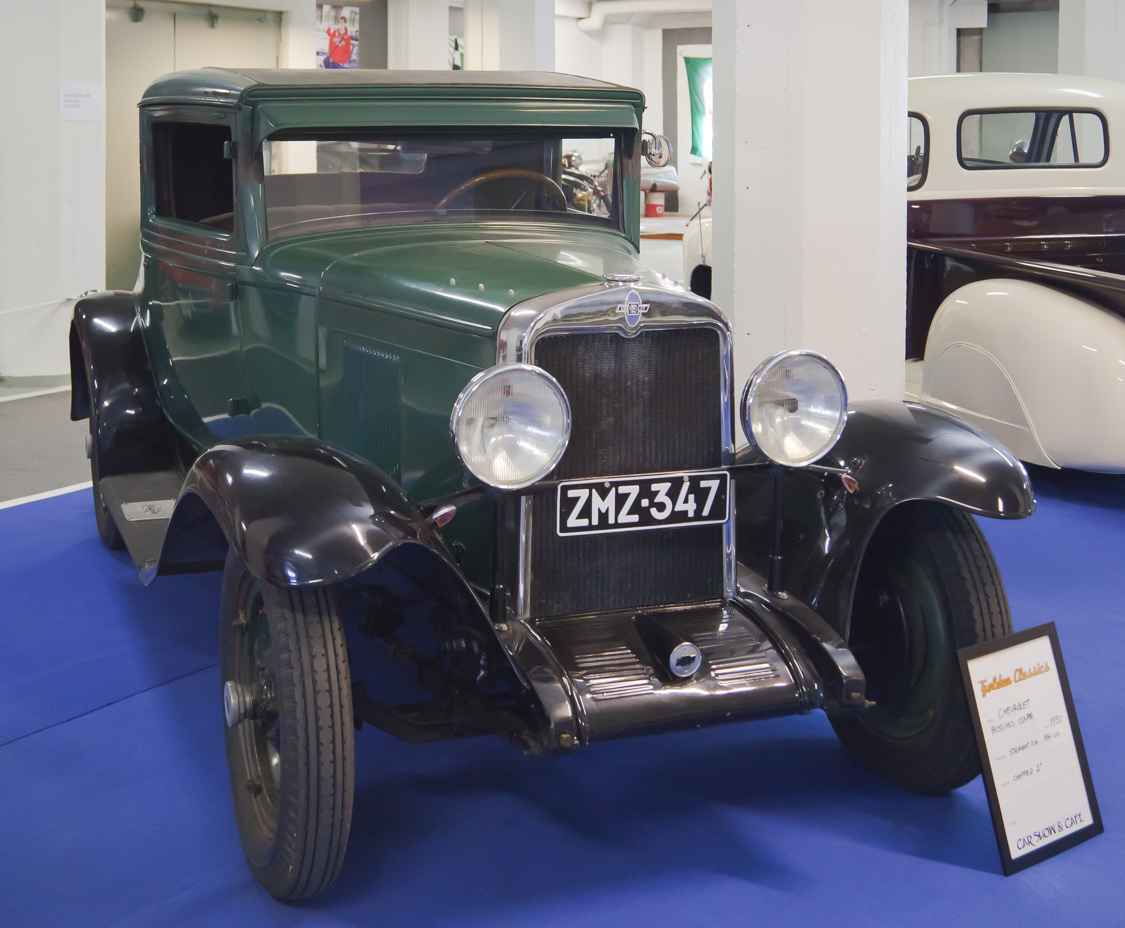 Chevrolet Business Coupe of 1930, Helsinki, Finnland